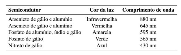 Tabela luz comp